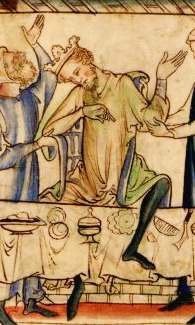 Death of King Harthacnut at a wedding feast. (Cambridge University Library, Ee.3.59, fo. 7r)